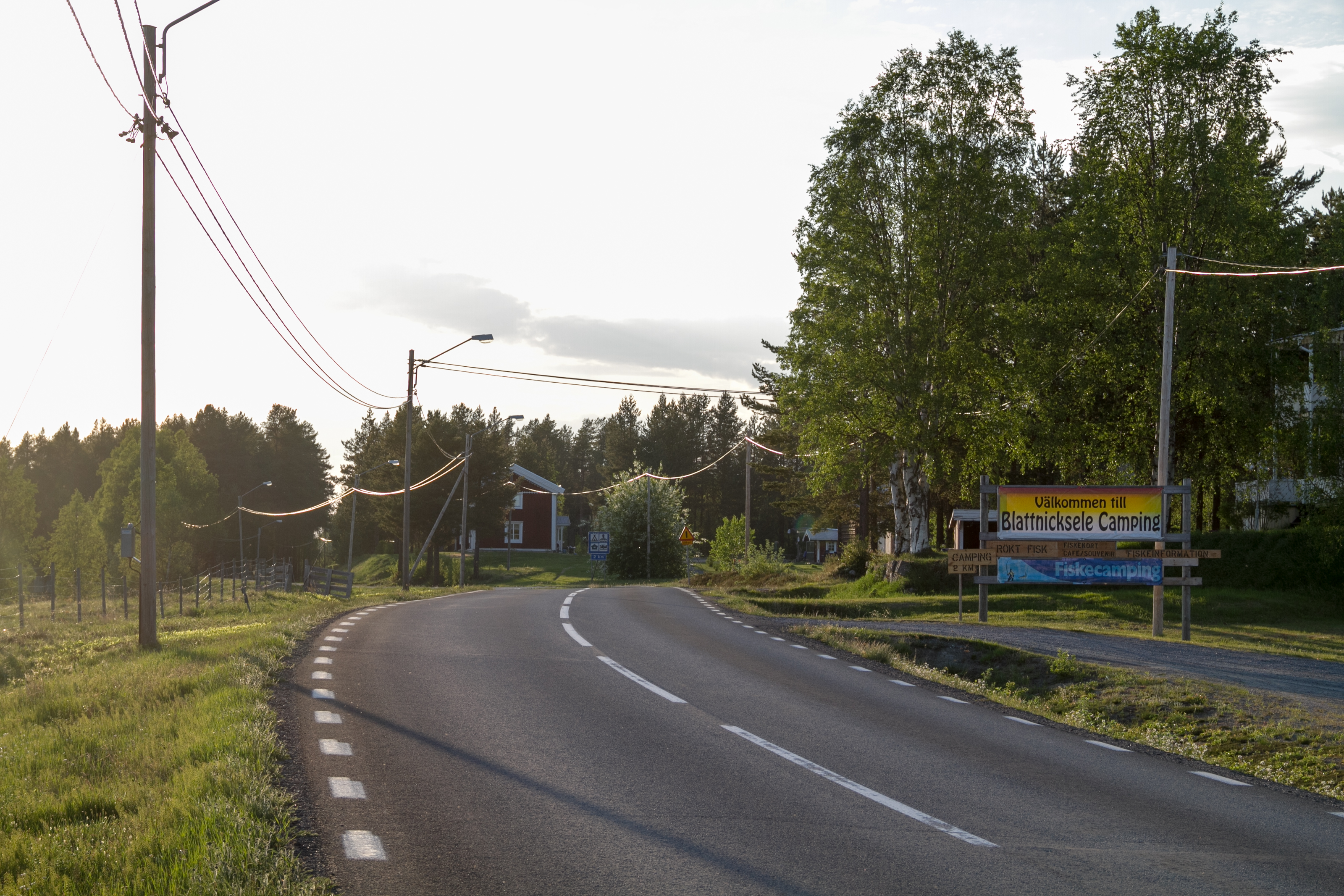 Blattnicksele in Sorsele Municipality, Västerbotten County, Sweden